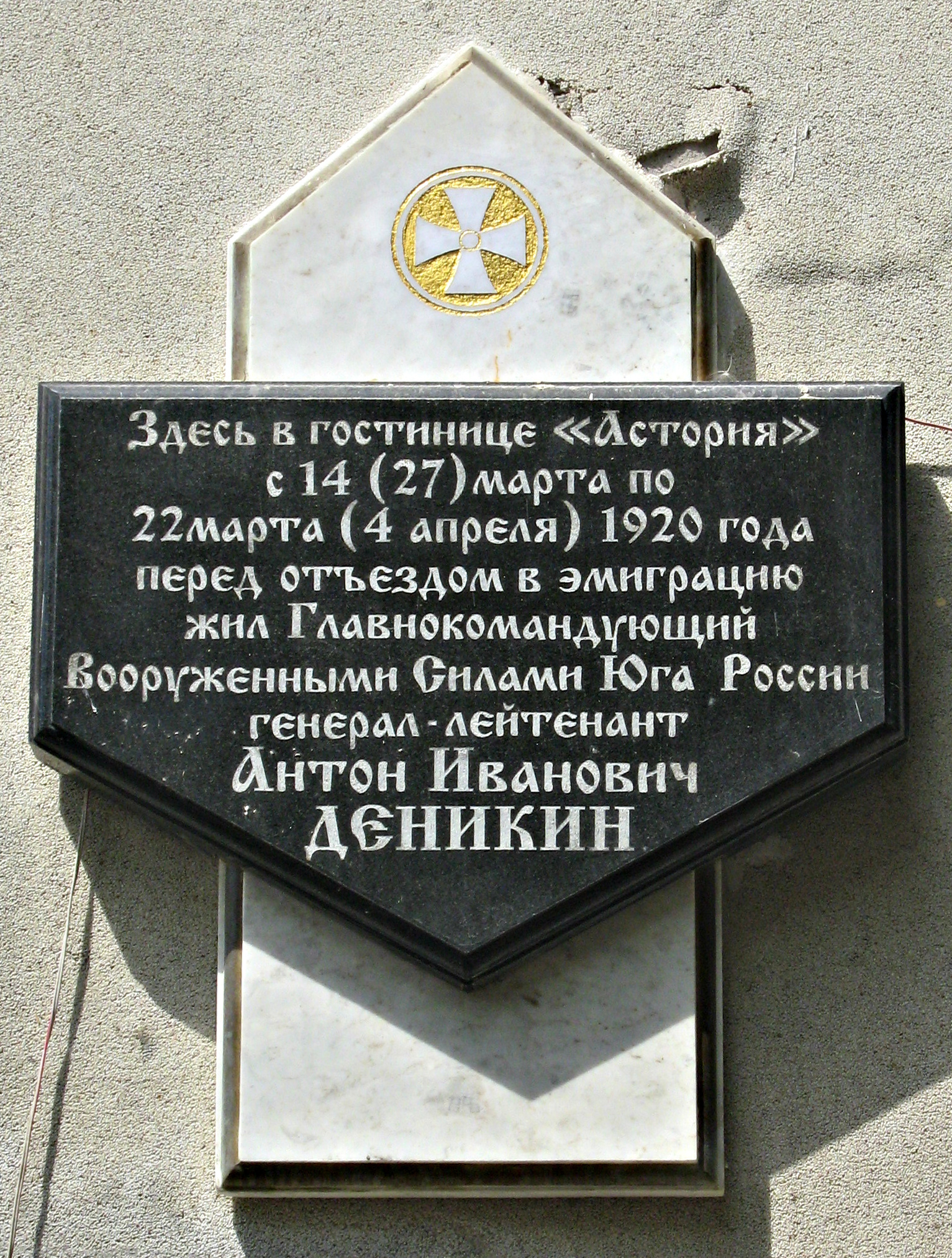 Anton Denikin memory desk. Theodosia. Crimea. Ukraine.